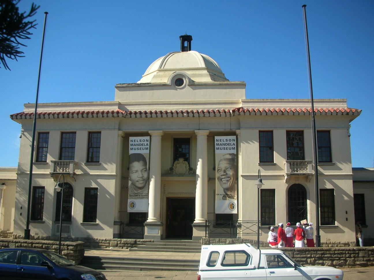 The Nelson Mandela Museum in Mthatha (Umtata)